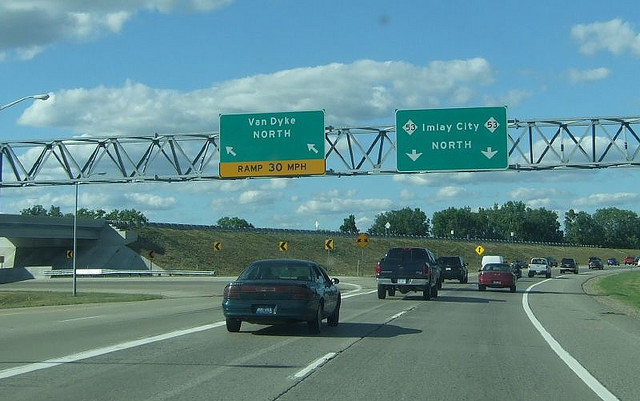 Van Dyke Freeway splits from old Van Dyke